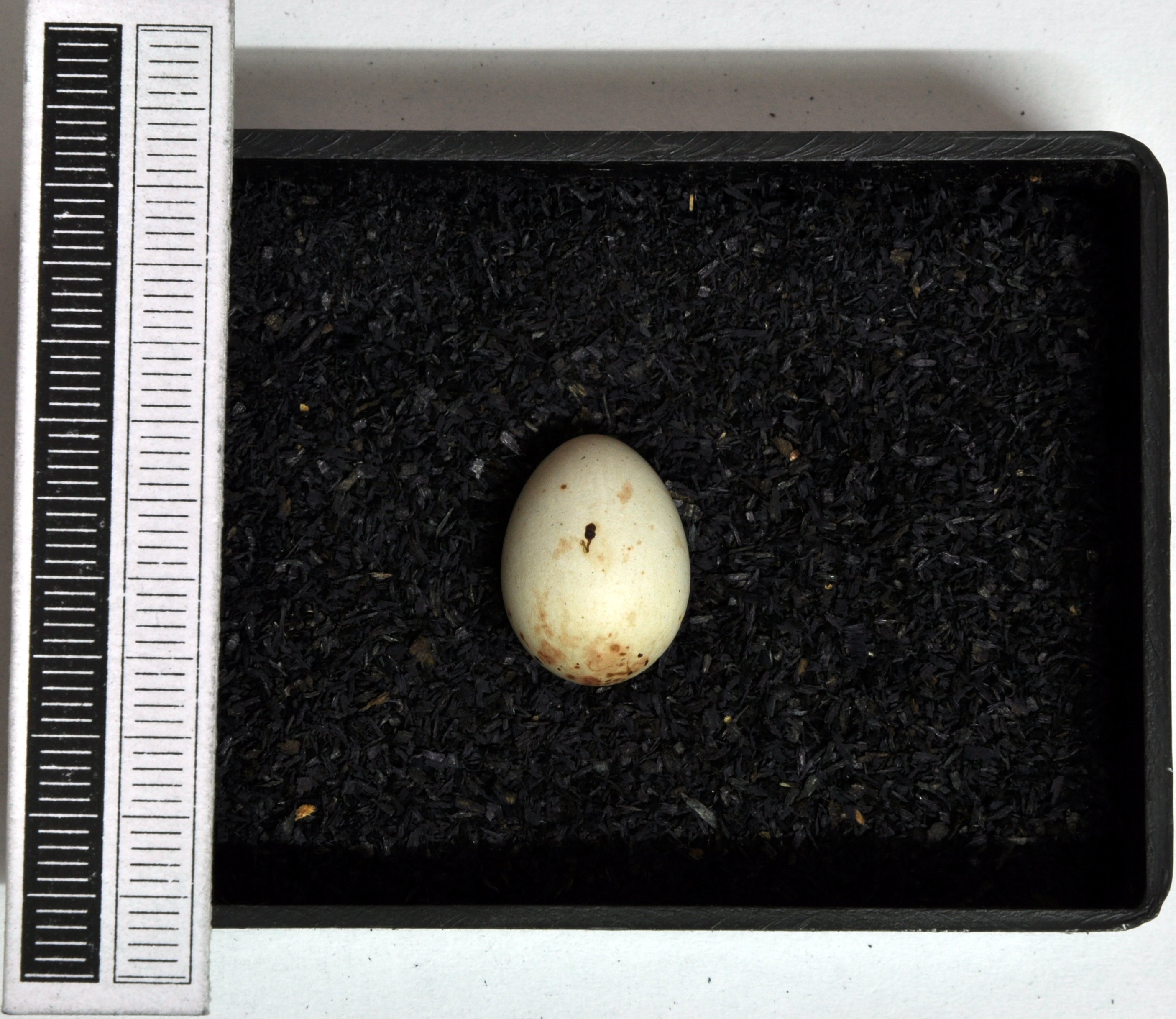 European goldfinchCarduelis cannabina, egg, Coll. Museum Wiesbaden, Origin: Aviary breed, Germany, 1964, leg. W. Abelmann